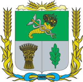 Coats of arms of Chugujivskyj raions